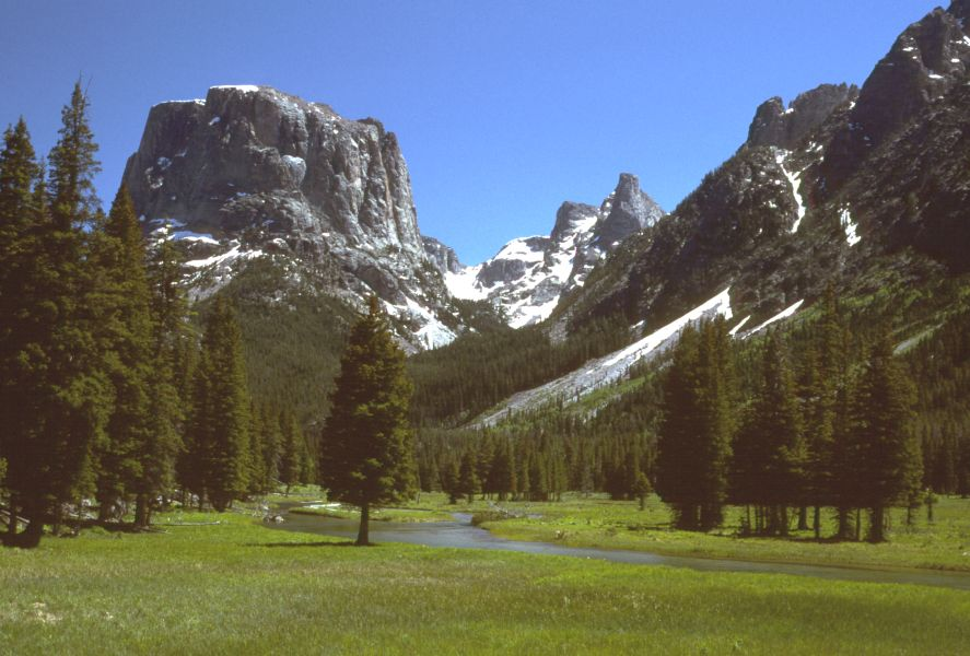 Upper Green River, Wyoming, looking east towards Squaretop Mountain